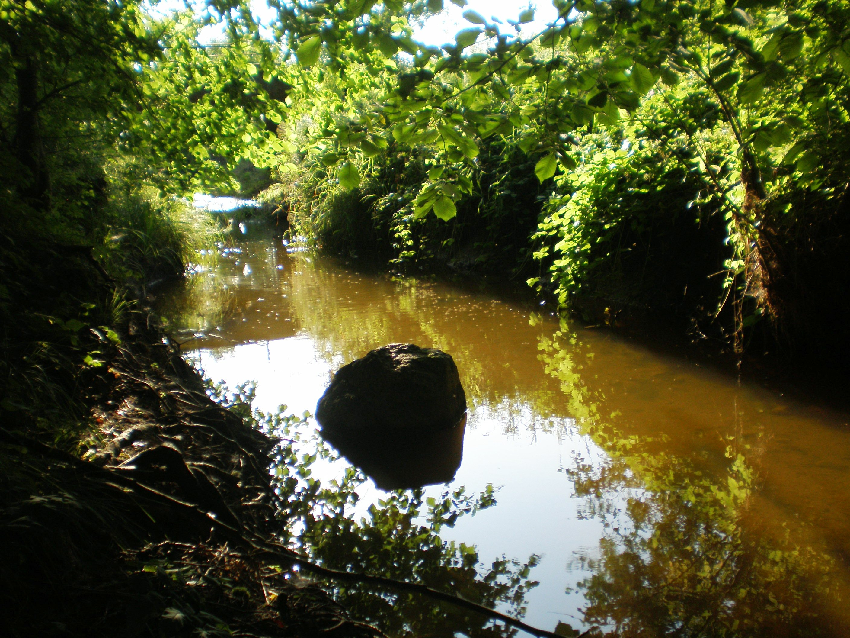 Aluona river near Vincentava, Kėdainiai mun., Lithuania